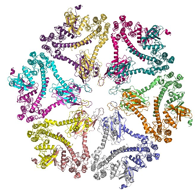 Three-dimensional model of the whole dodecameric enzyme Calcium/calmodulin kinase II. The image was generated in VMD, using the coordinates provided in Rosenberg et al (2005). Cell 123:765-767.